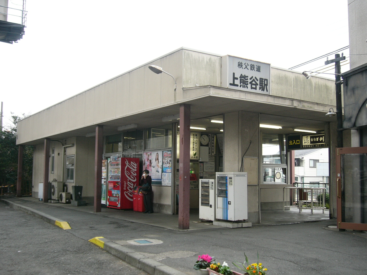 Kami-Kumagaya Station